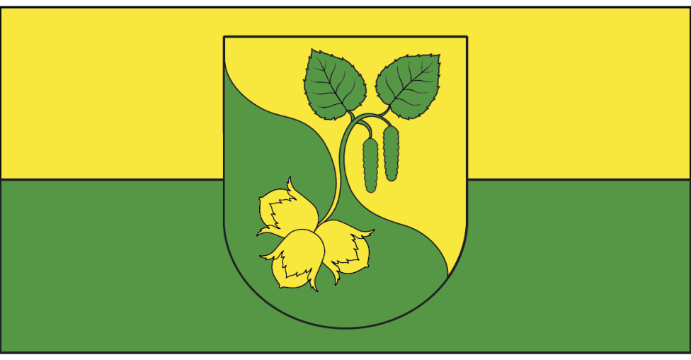 Flag of Arechaŭsk